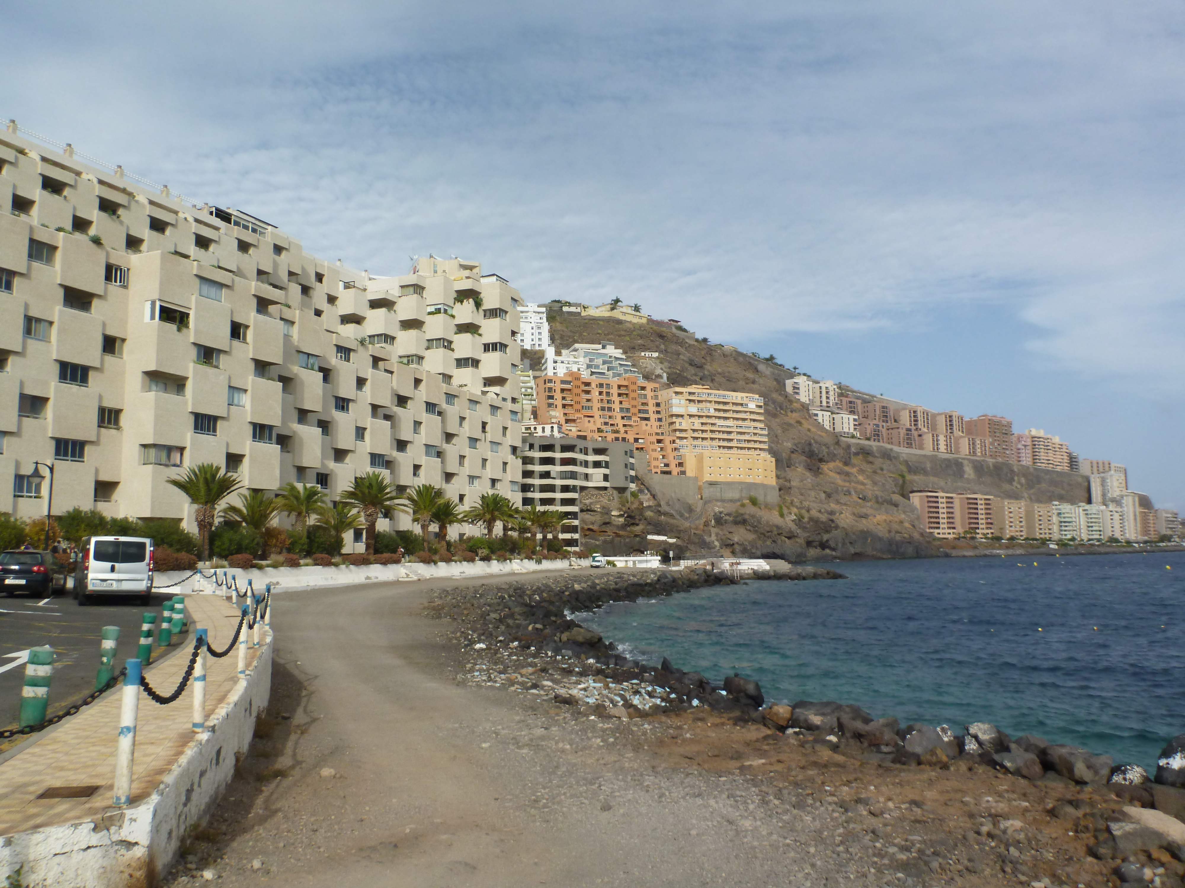 Tabaiba (El Rosario) overview from the atlantic ocean